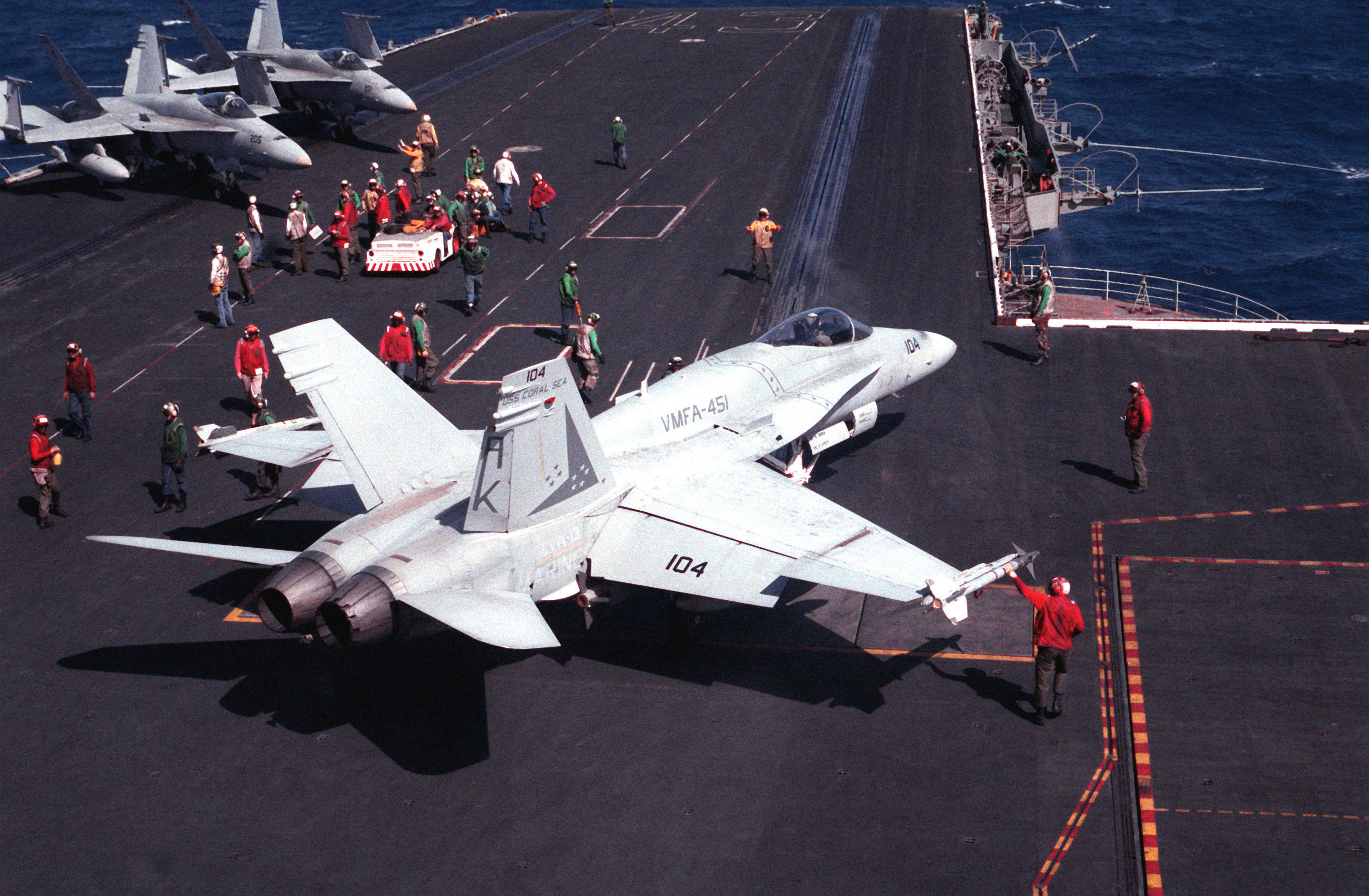 An ordnanceman of U.S. Marine Corps fighter-bomber squadron VMFA-451 Warlords checks an AIM-9L Sidewinder air-to-air missile on the wing of a McDonnell Douglas F/A-18A Hornet aircraft prior to its launch from the aircraft carrier USS Coral Sea (CV-43) in 1989. VMFA-451 was assigned to Carrier Air Wing 13 (CVW-13) for Coral Sea’s last deployment from 31 May to 30 September 1989 to the Mediterranean Sea.